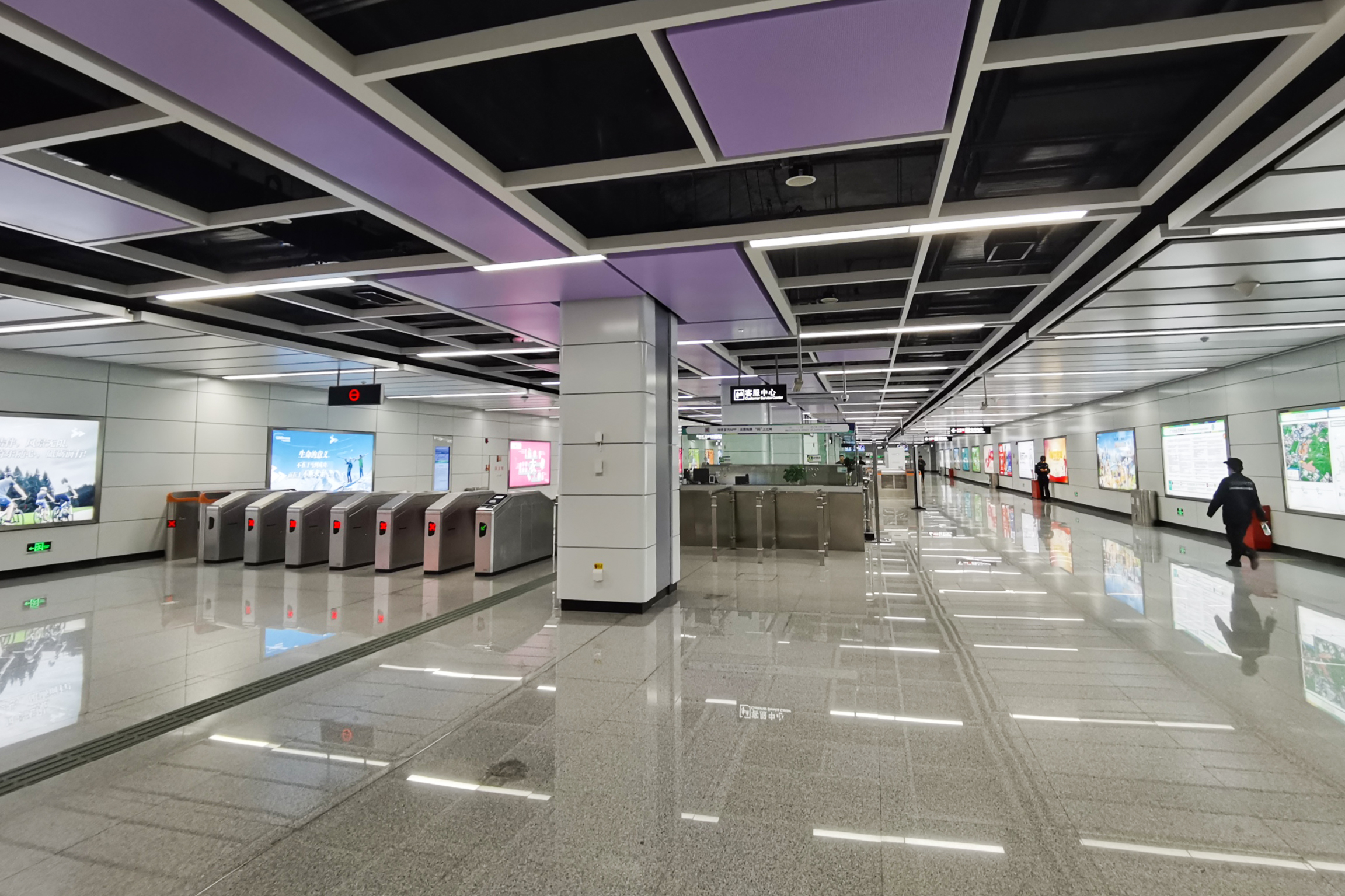 广州地铁红卫站